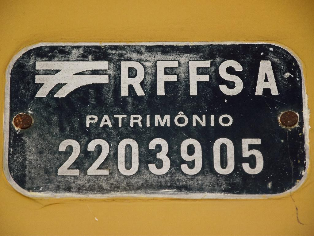 Plate with the number of equity of the Federal Railway. RFFSA.